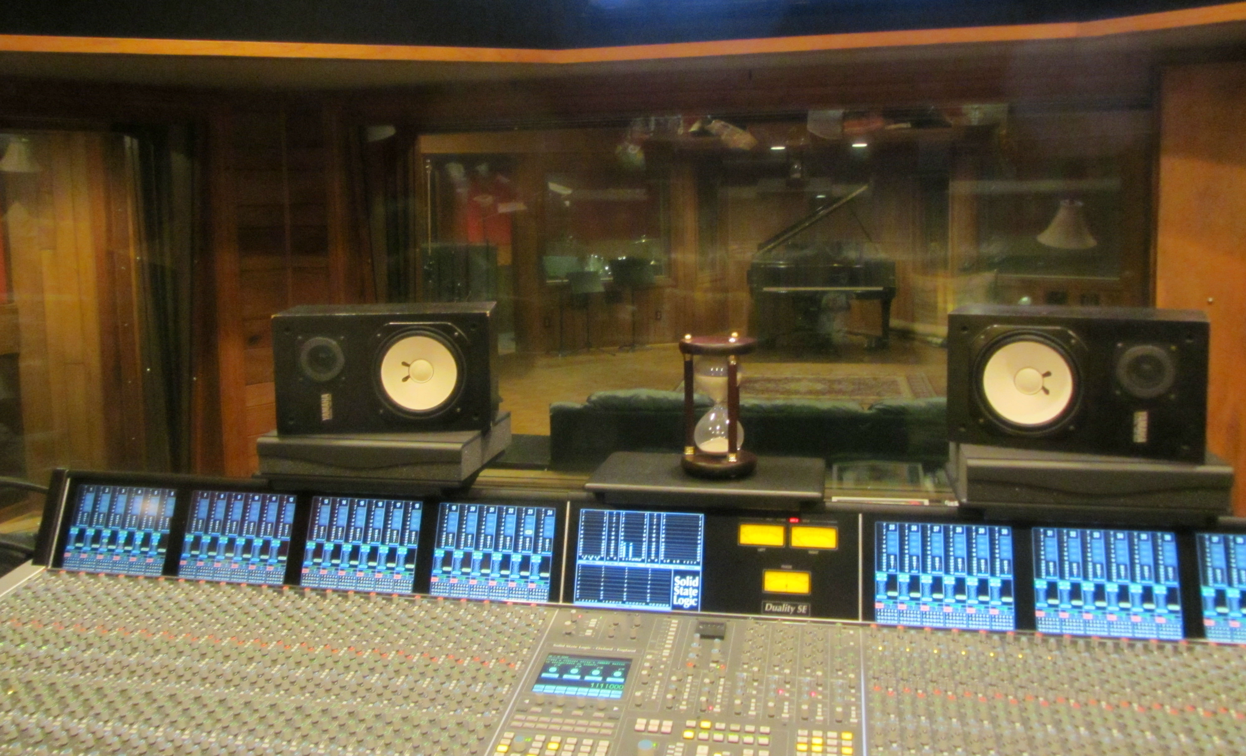 SSL Duality SE 48 Channel Console, Studio C. Studio Equipment List. Ardent Studios.